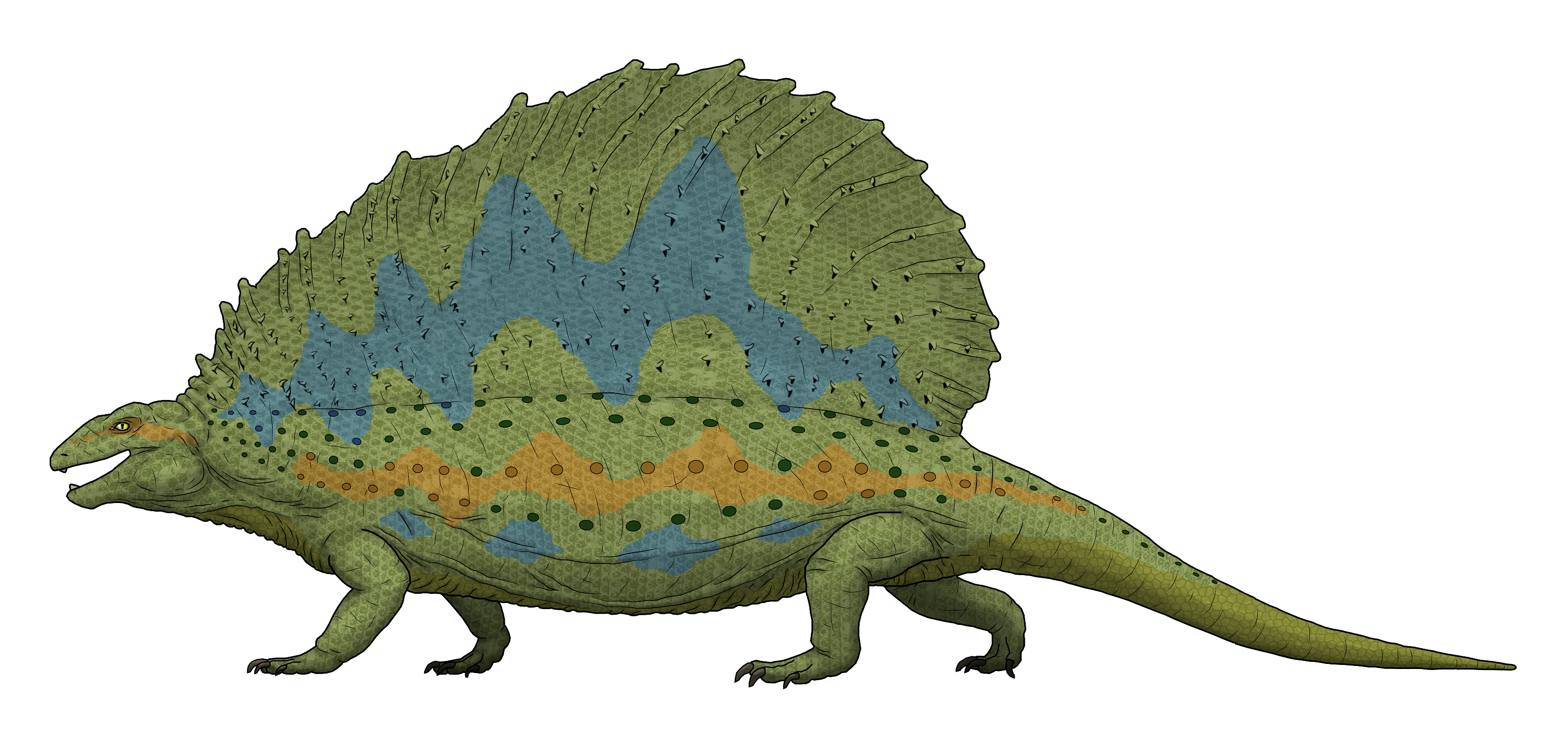 Gordodon kraineri life reconstruction based on the skeletal drawing posted in the species´ description paper by Matthew D. Celeskey.